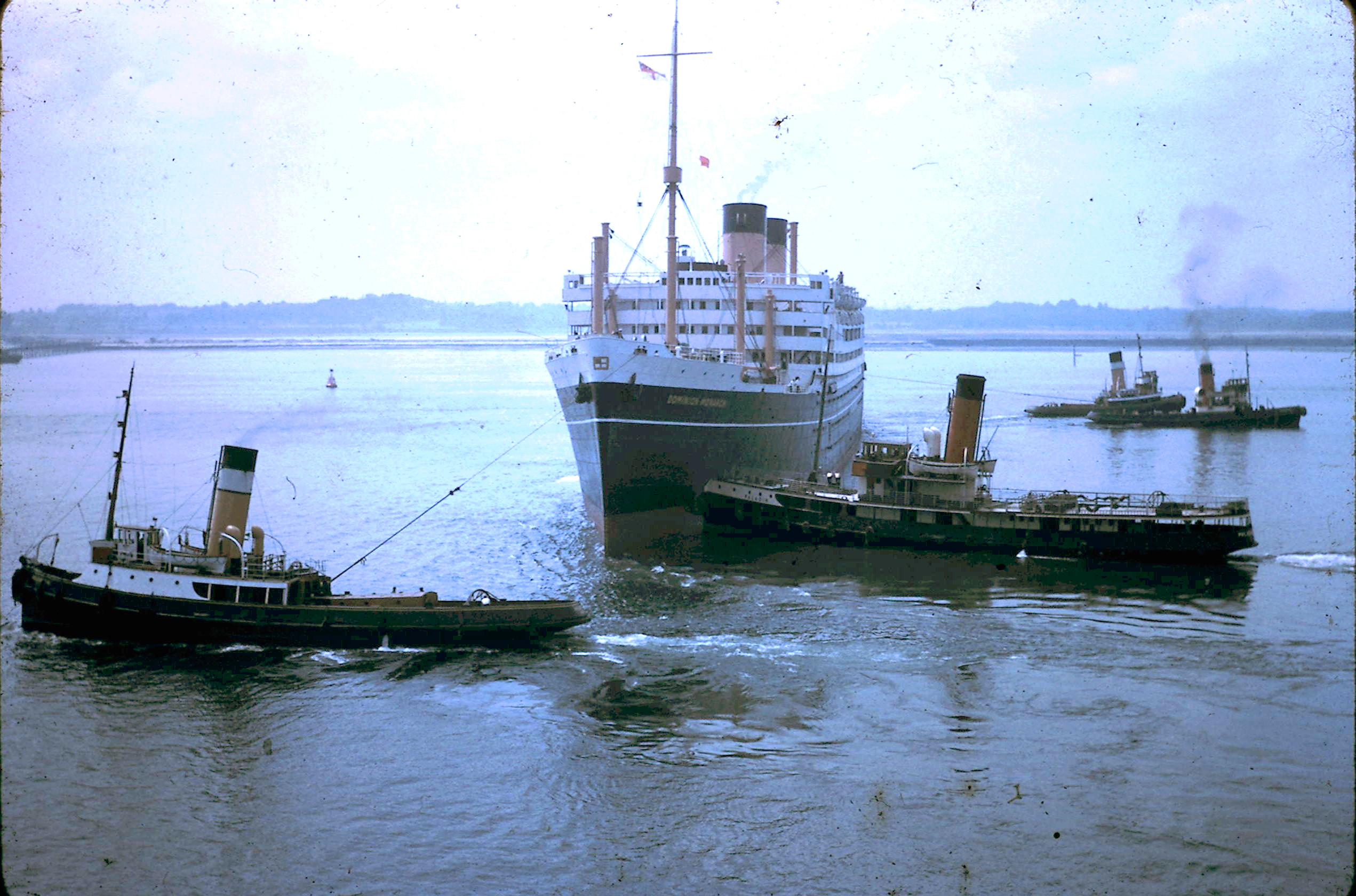 Dominion Monarch, Shaw Savill and Albion's cargo and one-class passenger liner makes ready to depart on a voyage to South Africa Australia and New Zealand in the summer of 1960